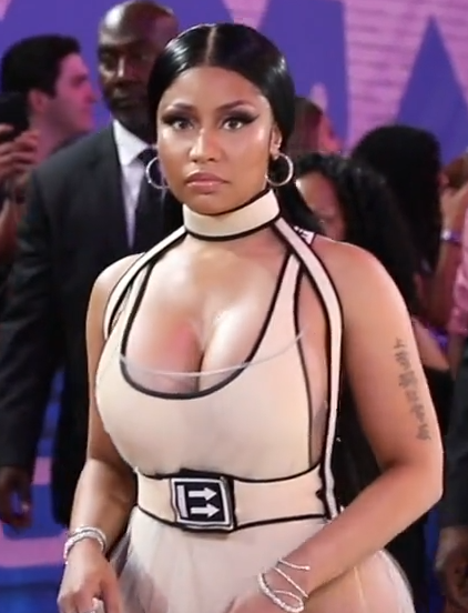 Nicki Minaj at 2018 VMA Red Carpet